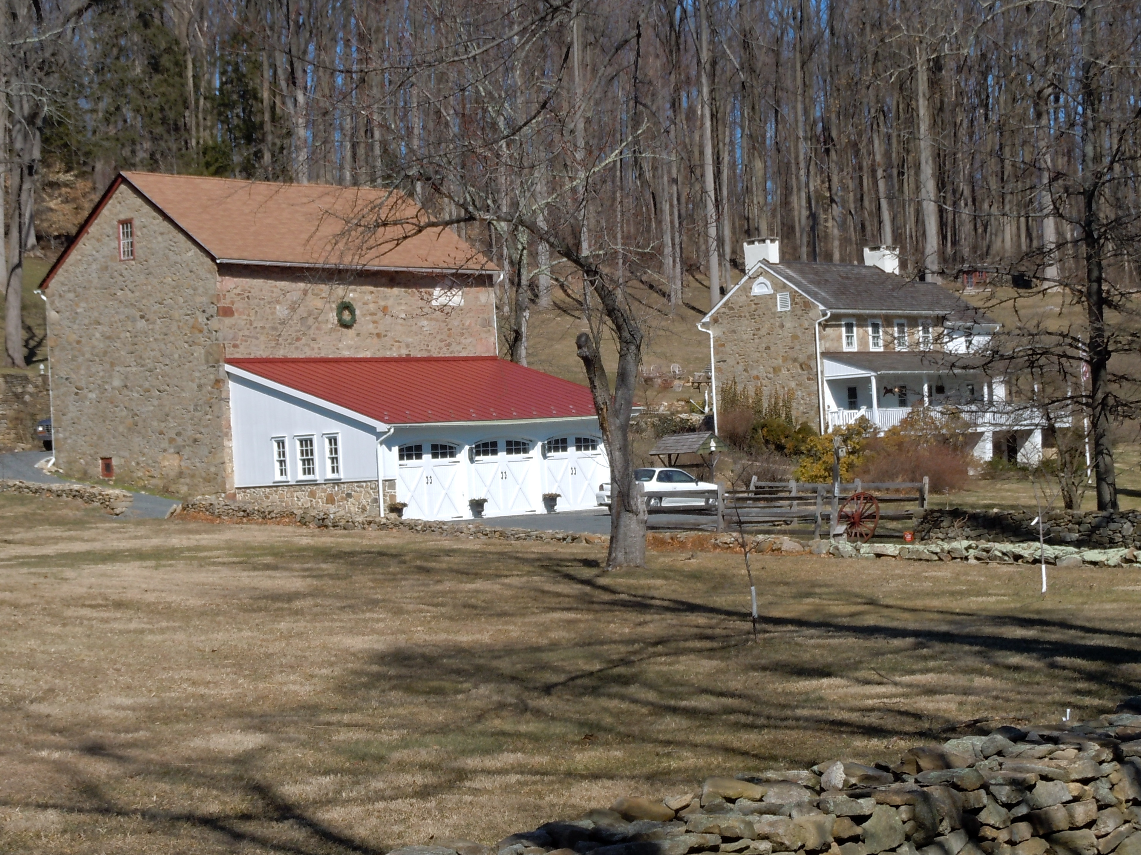 Barn and house in West Vincent Highlands Historic District in the NRHP since May 7, 1998. HD includes Birchrun Road, Pennsylvania Route 401, Fellowship Road, Horshoe Tr., Hollow Road, and Davis, Jaine, Green, Bartlett, and Mill Lns. This particular barn and house are north of Horseshoe Trail on Jaine or Bartlett, near Green. HD in Upper Uwchlan and West Vincent Townships, Chester County, Pennsylvania.